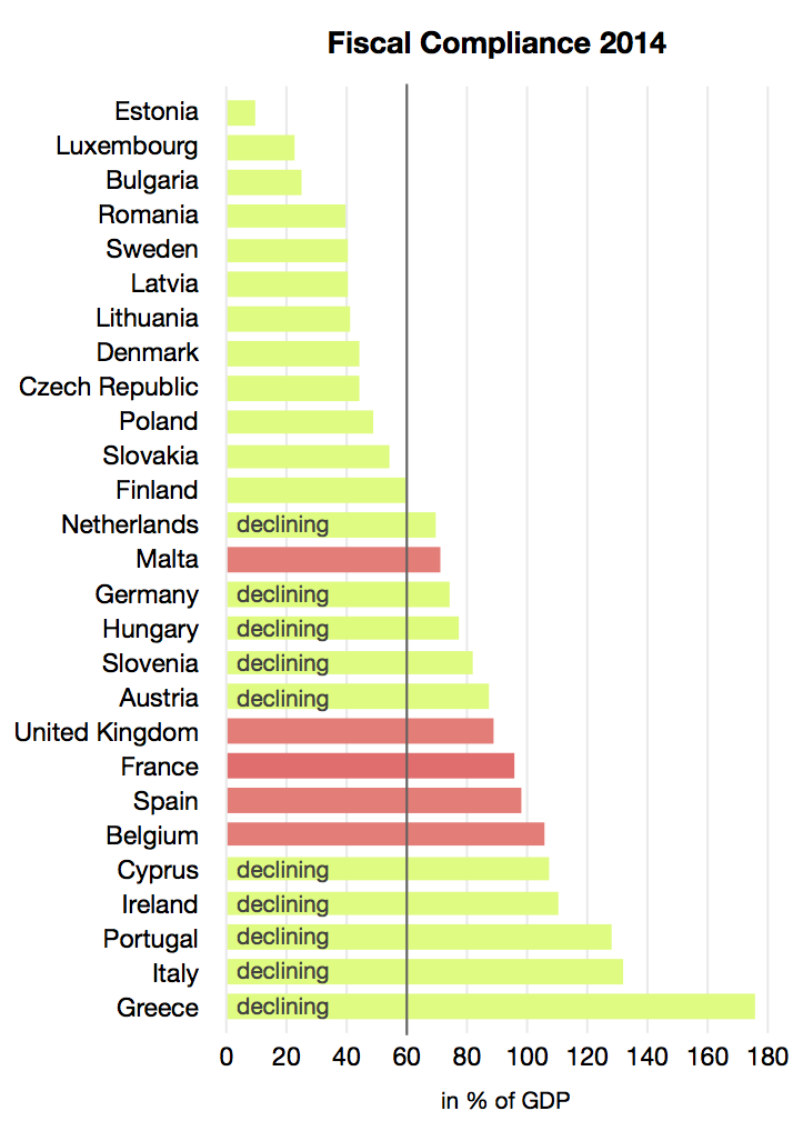 The compliance of the governments financial budget with the strict criteria defined by the Fiscal Compact for each of the EU member states, as laid out in this table. The figures all origin from the economic winter forecast published by the European Commission in 2013.